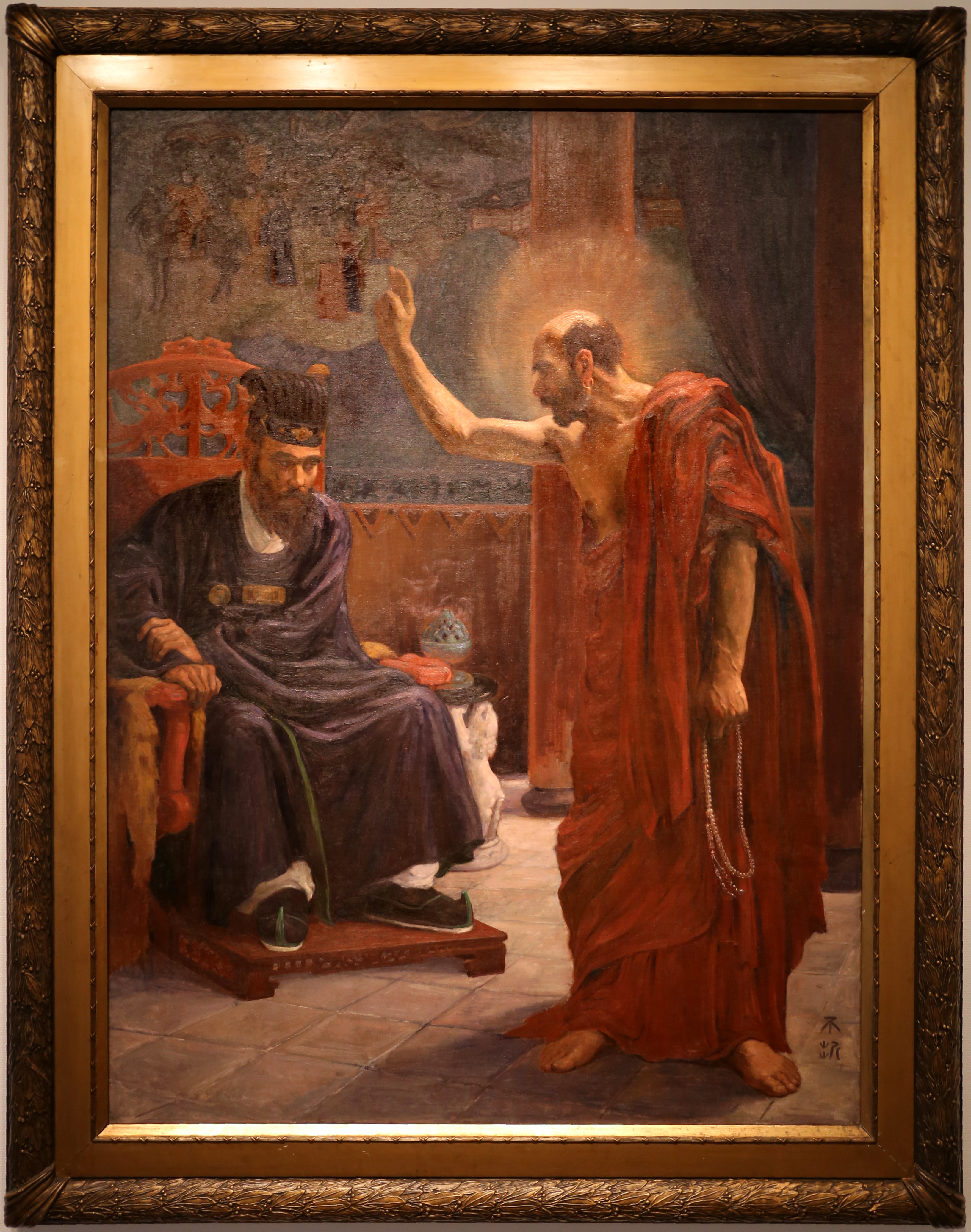 Paintings in the National Museum of Modern Art, Tokyo